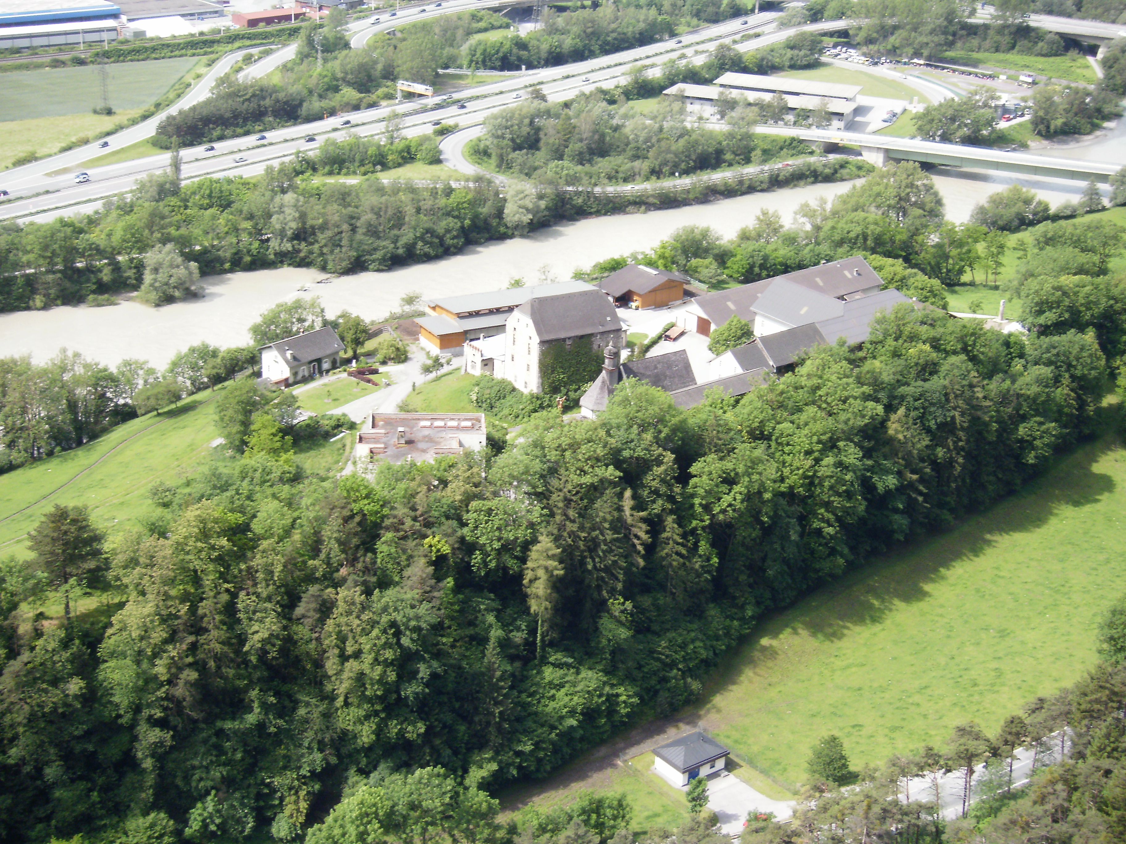 Martinsbühel from Martinswand